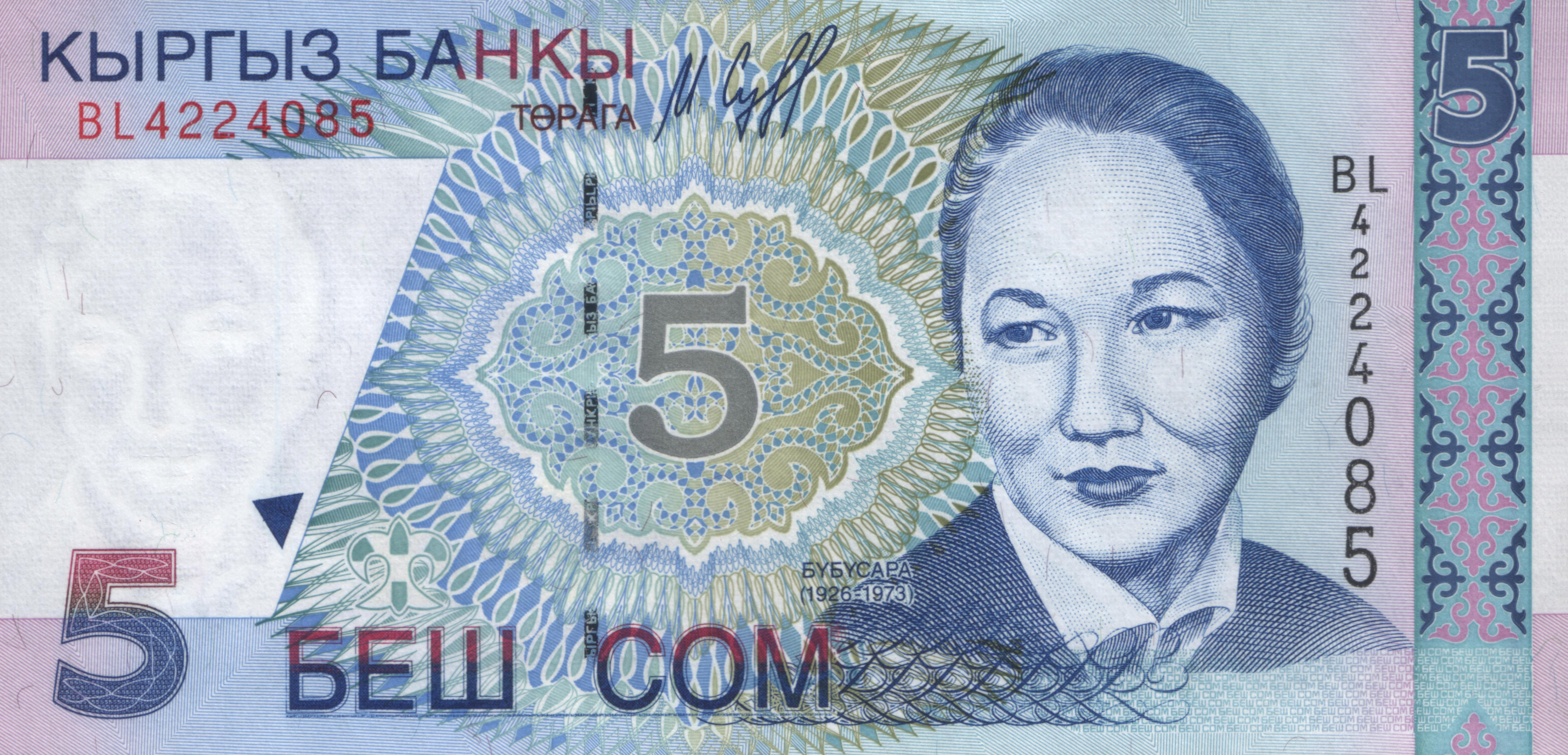 5 som of Kyrgyzstan (1997)